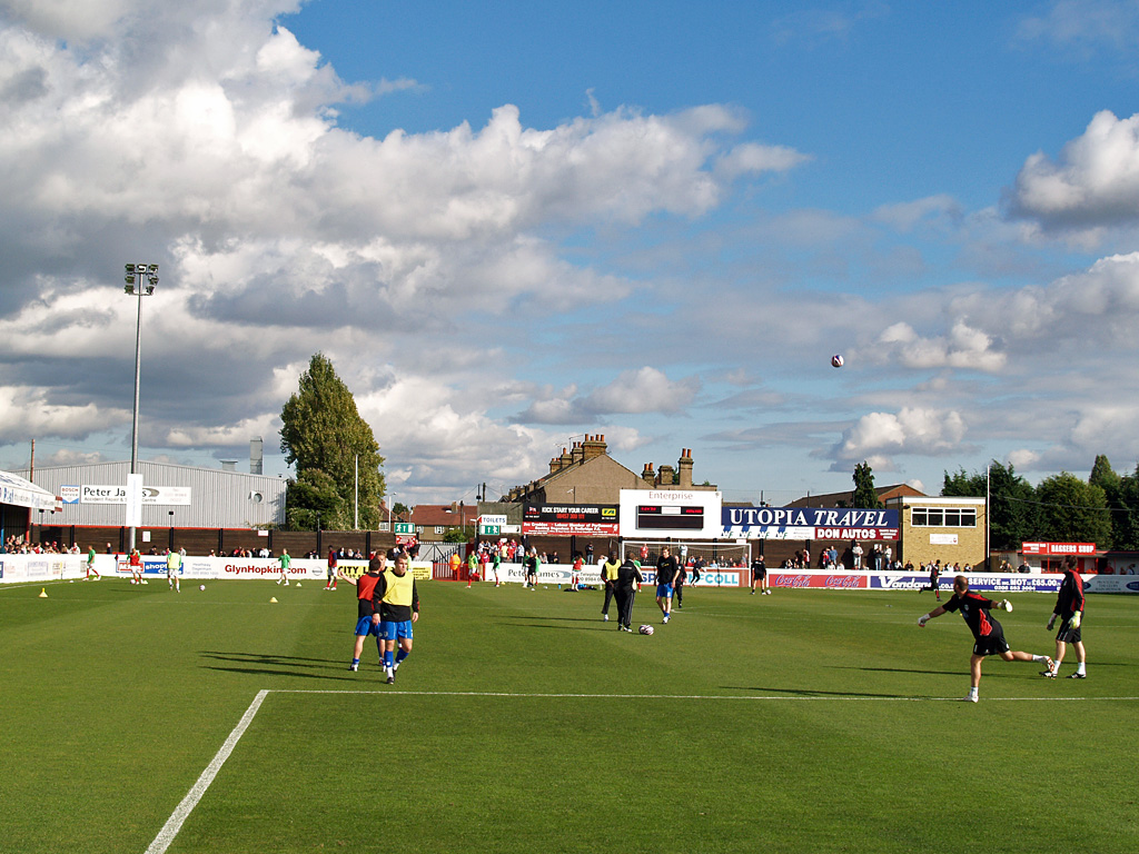 The Bury Road End terrace at the London Borough of Barking and Dagenham Stadium, home of Dagenham & Redbridge FC. Saturday18th October 2008